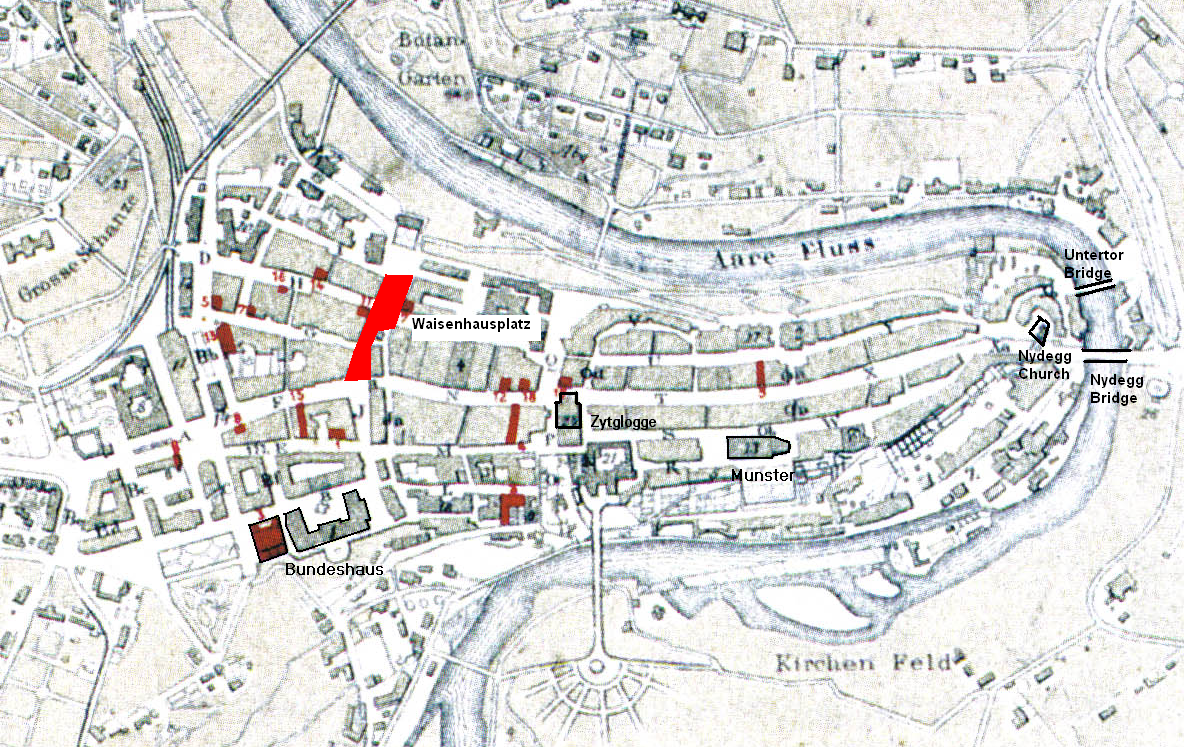 City plan of Bern, 1882. Scanned from BERN: Eine Stadt vor 100 Jahren, Bilder und Berichte; Peter Lauenberger, Emil Erne; München 1997; p. 7. Originally from Bern und seine Umgebungen, C.H. Mann, 1882 in the Alpines Museum of Bern. Due to the age of the image, it must be assumed that the author has been dead for more than 70 years. Copyright protection has therefore lapsed under Swiss copyright law (Art. 29 par. 3 URG).